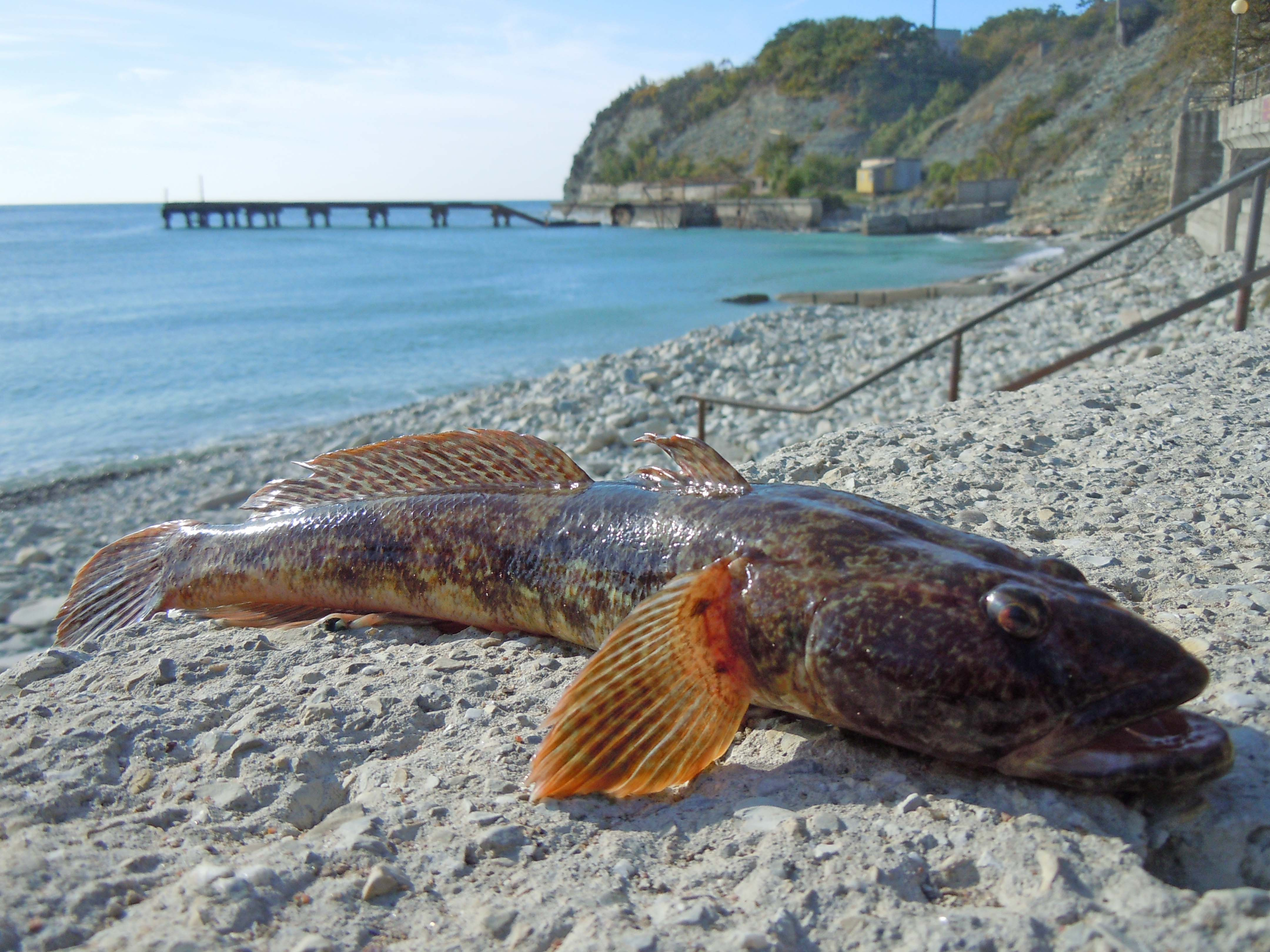 Toad goby from Gelendzhik, Russian Caucasus